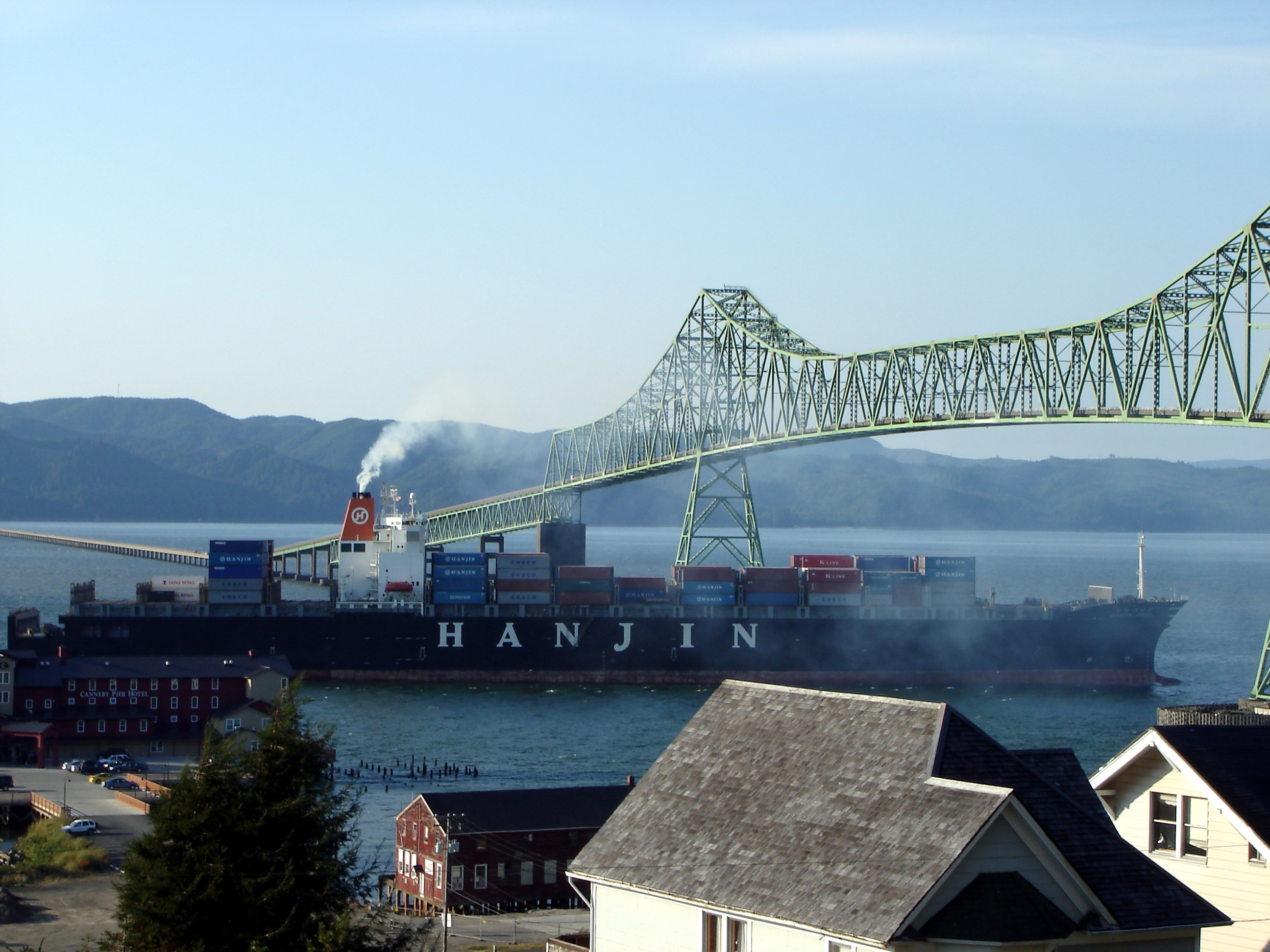 Hanjin Oslo passing under the Astoria Bridge, heading upriver to the Port of Portland.